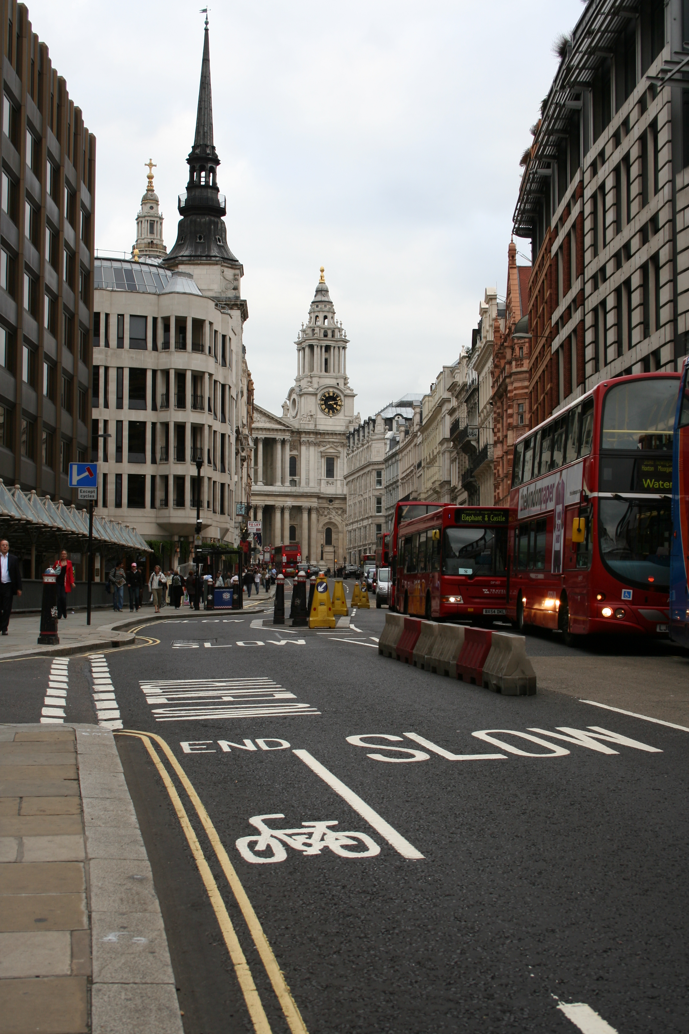 A view of Ludgate Hill, London